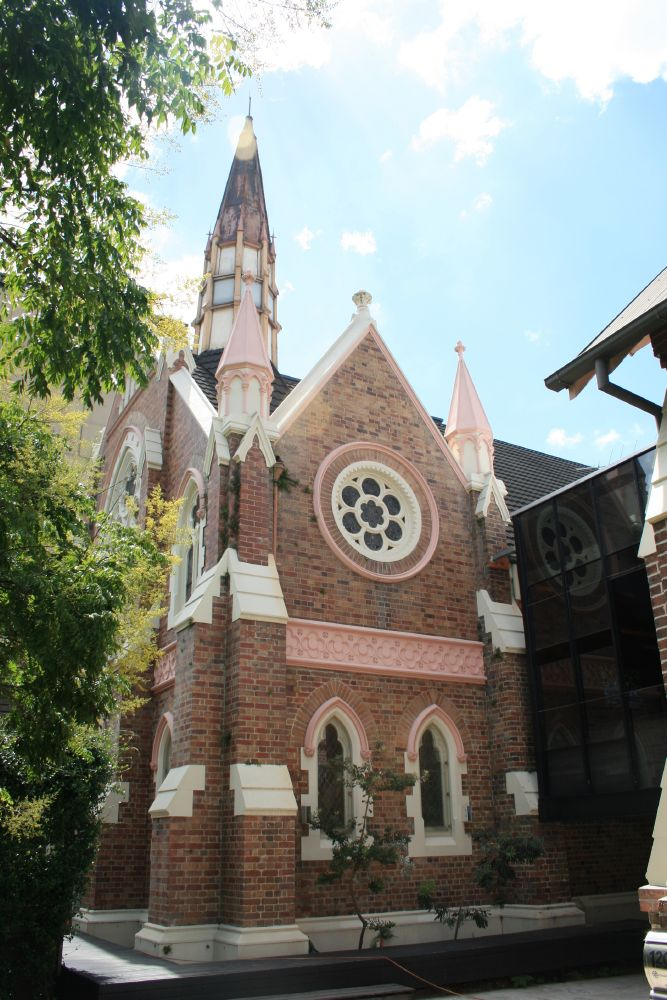 Fortitude Valley Methodist Church, Gregory Place & Gregory Hall (2009)